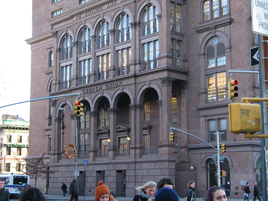 The North face of the Cooper Union BUilding